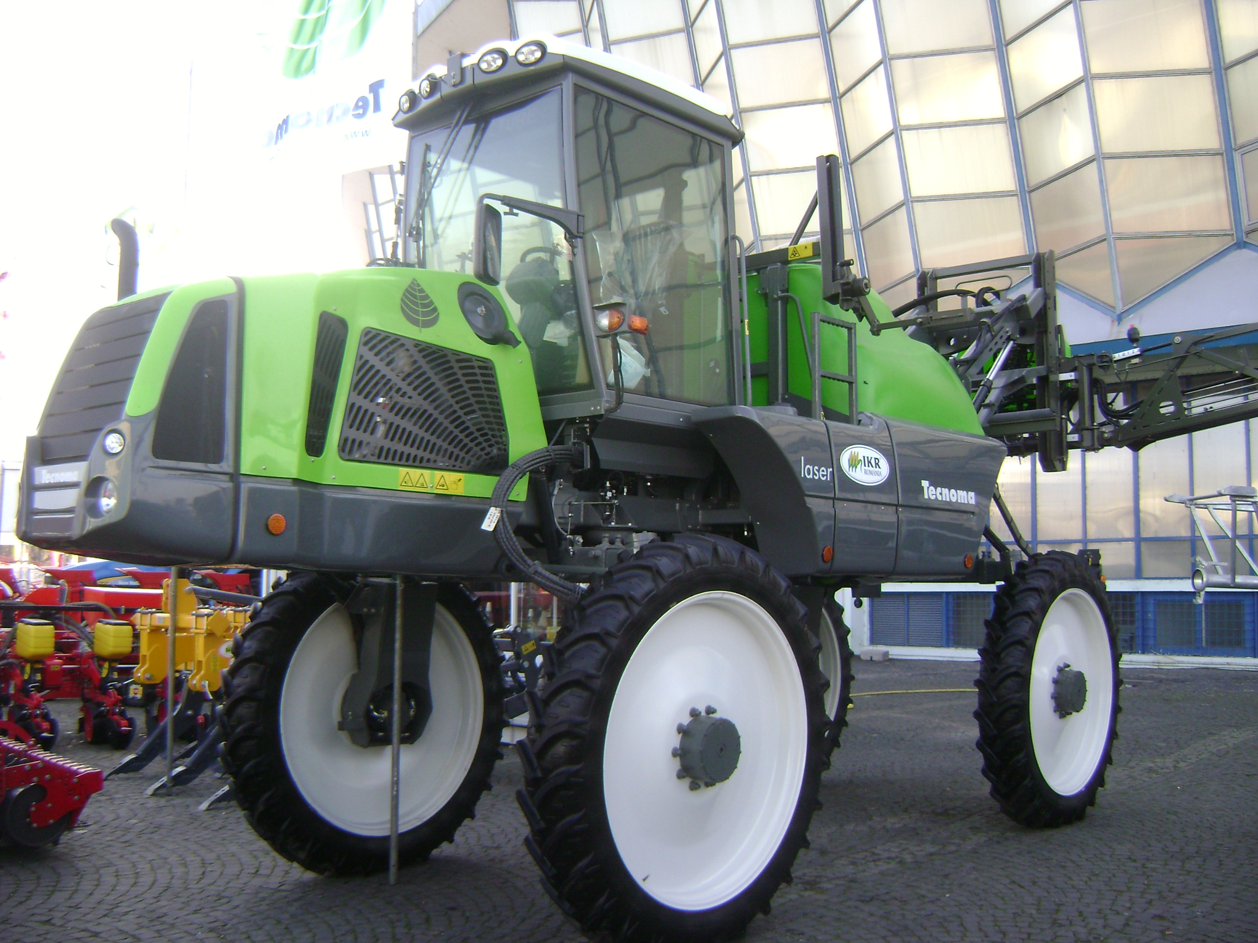 Tecnoma Laser 3240 Self-propelled sprayer seen in Bucharest, Romania at Romexpo during the 2010 IndAgra Farm international exhibition of equipment and products from the fields of agriculture, animal husbandry and foodstuff